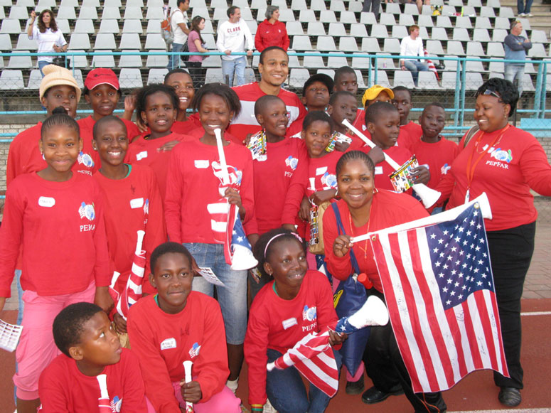 Ricardo Clark poses with young fans attending the 2010 FIFA World Cup as part of a Peace Corps misison